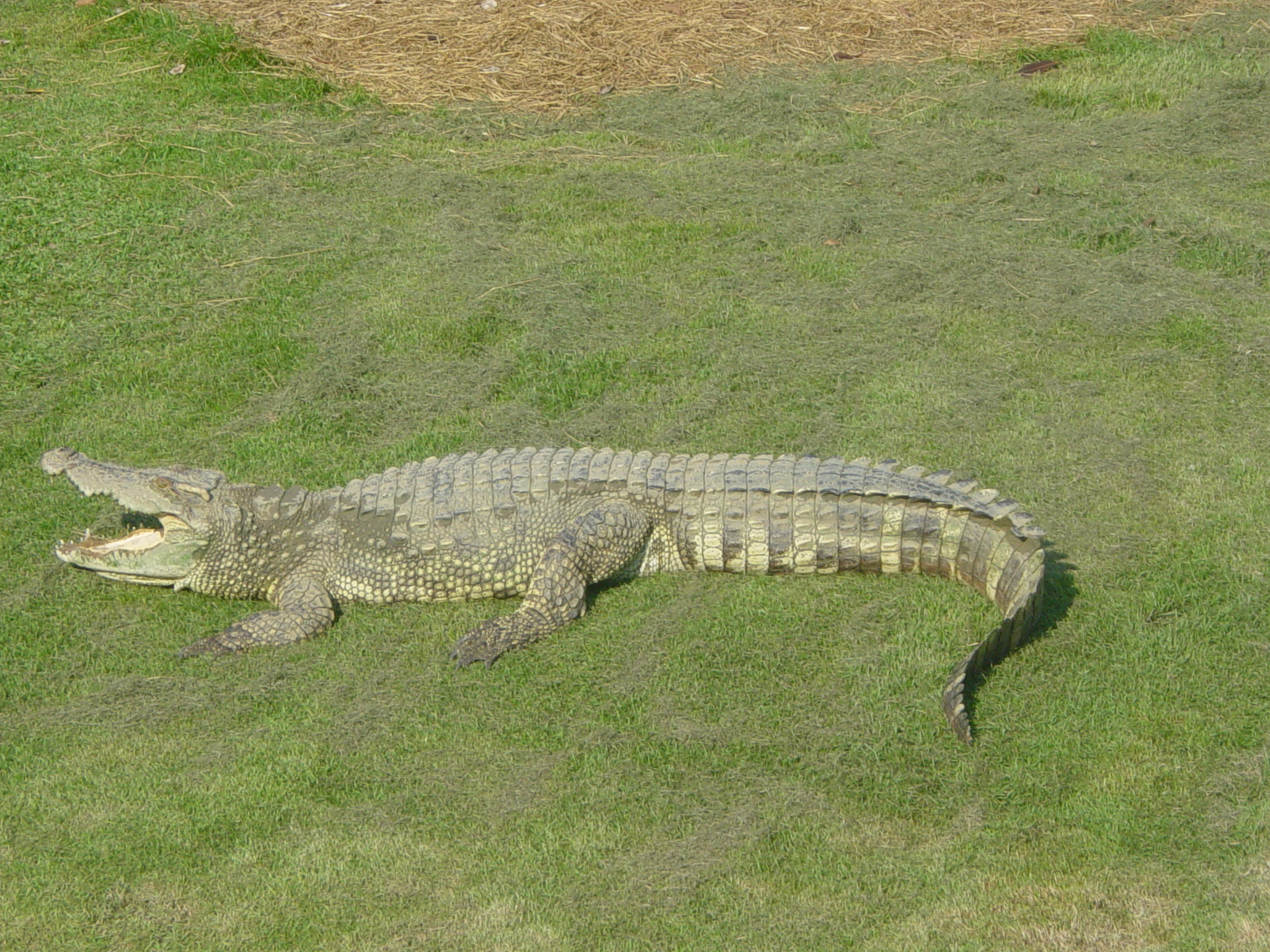 Siamese crocodile, crocodiles often sleep with their mouth open to sweat as they have no sweat glands. Location is an aquarium west of Bangkok, Thailand.